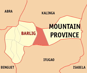 Map of Mountain Province showing the location of Barlig